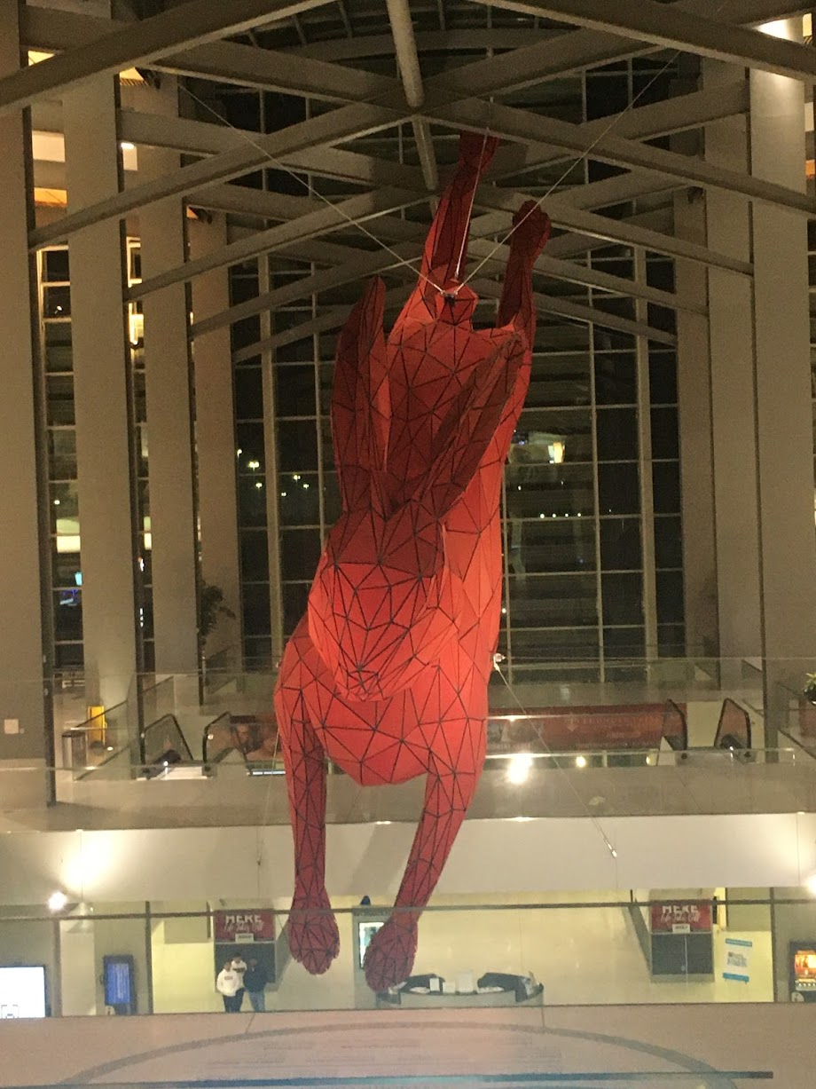 Terminal B artwork "Leap"